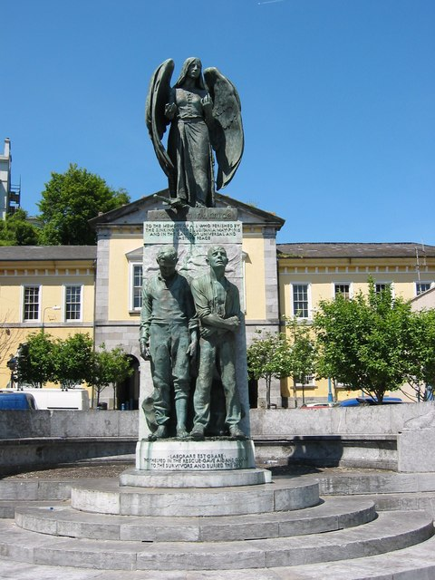 Lusitania Memorial The Memorial Commemorating the sinking of the Lusitania which was sunk in 1915 by a German U-Boat, U-20, with the loss of 1,198 people.